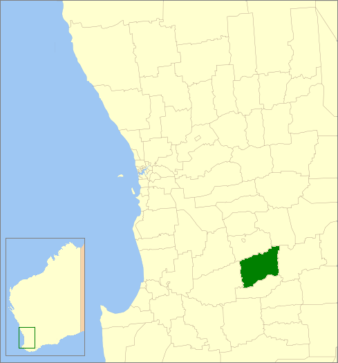 Description=Location of the Local Government Area in Western Australia